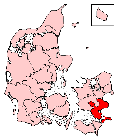 Map of Præstø County 1793-1970